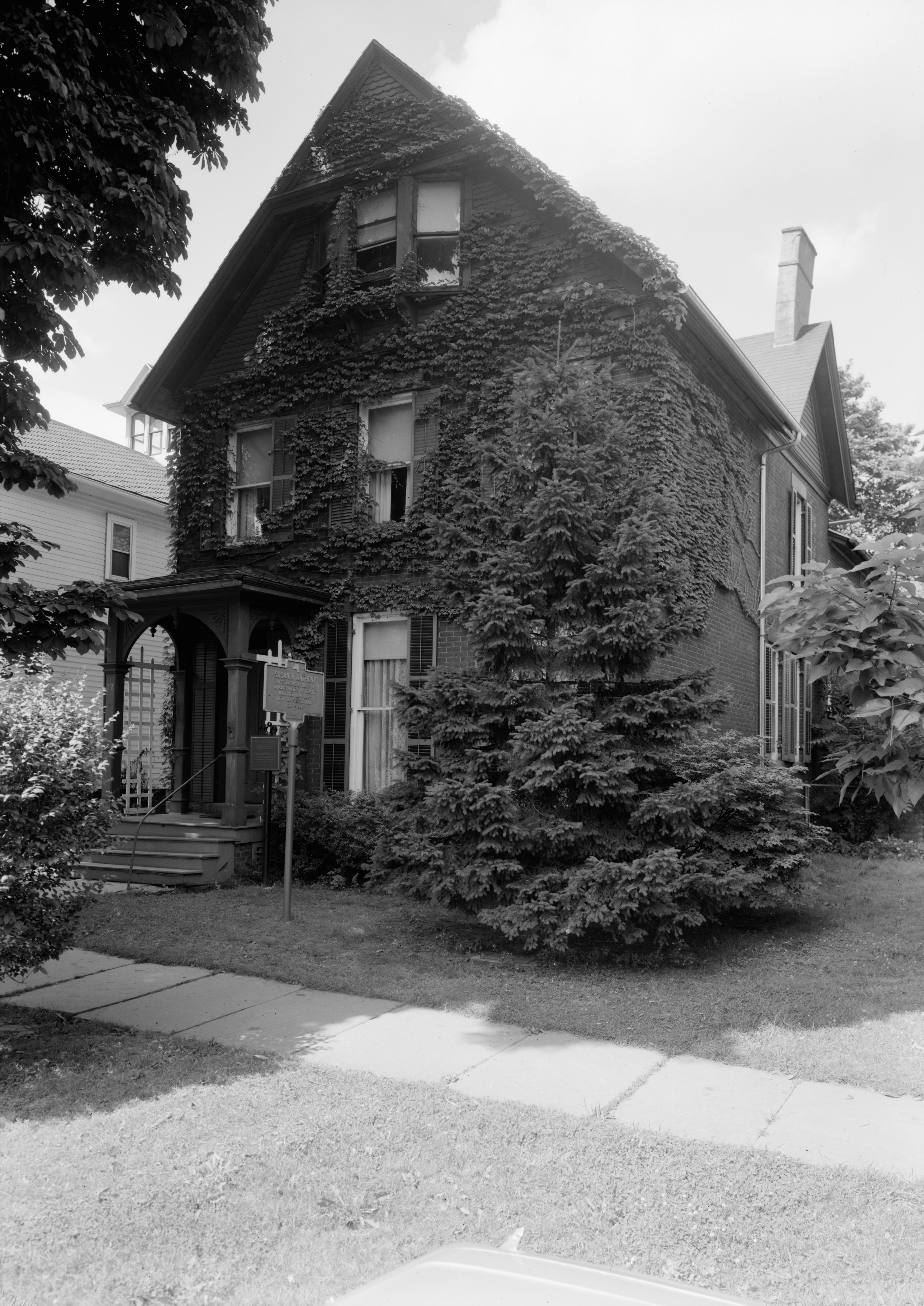 Susan B. Anthony House, 17 Madison Street, Rochester, Monroe County, NY August 9, 1967